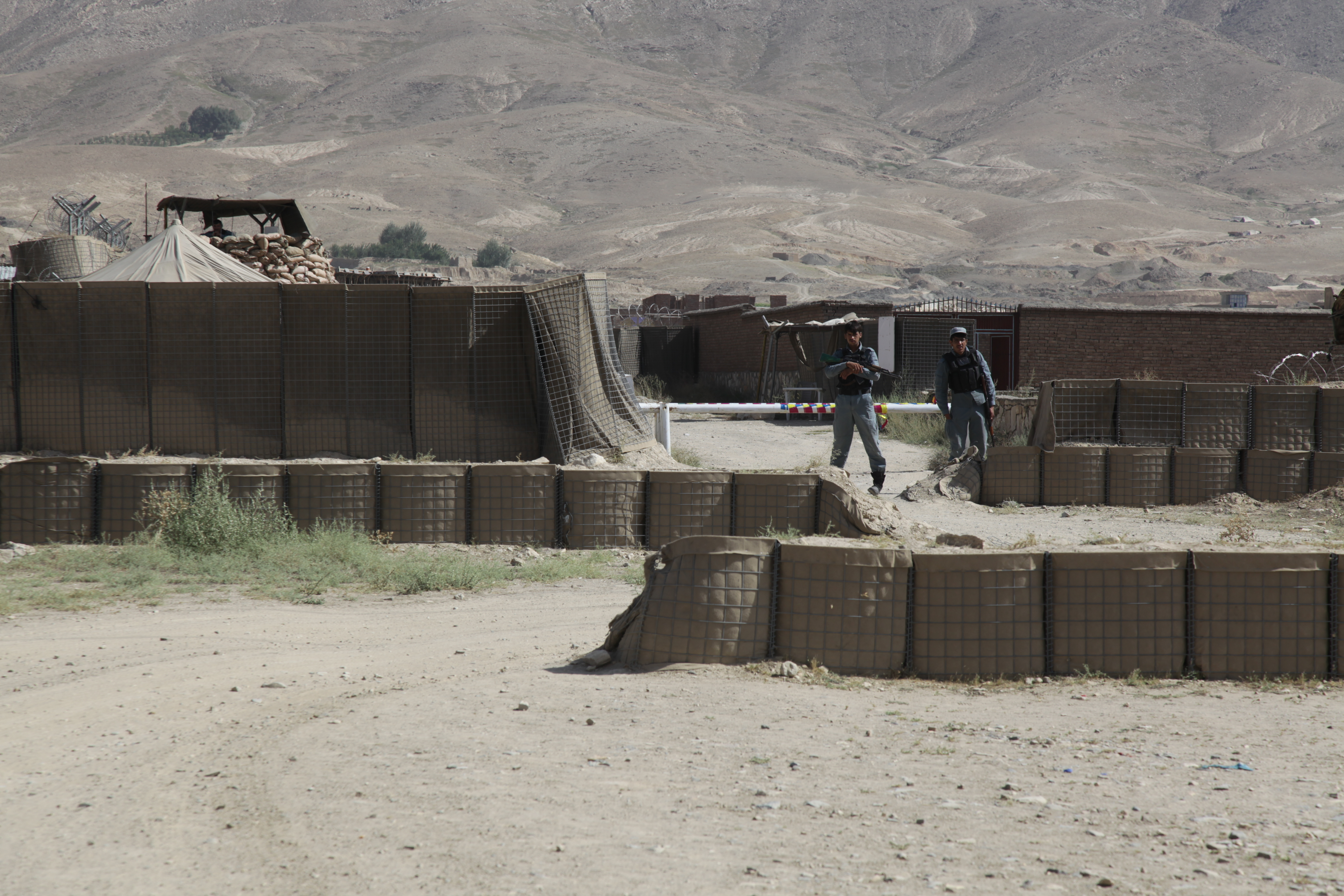 Afghan Military Police assigned to 2nd Kandak, pull security at the entrance to the ANCOP compound in Maidan Shar village, Wardak province, Afghanistan, Sept. 8, 2013. The compound is on high alert after a vehicle borne improvised explosive device detonated two hundred meters from their location. (U.S. Army photo by Staff Sgt. Rachel M. Copeland / Released) Unit: 982nd Combat Camera Company Airborne